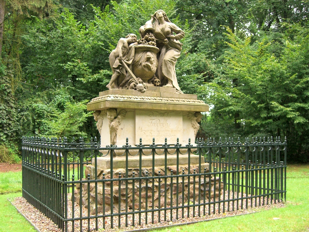 Memorial to Duke Friedrich of Mecklenburg-Schwerin (der Fromme) in Ludwigslust, sculpted by Rudolph Kaplunger